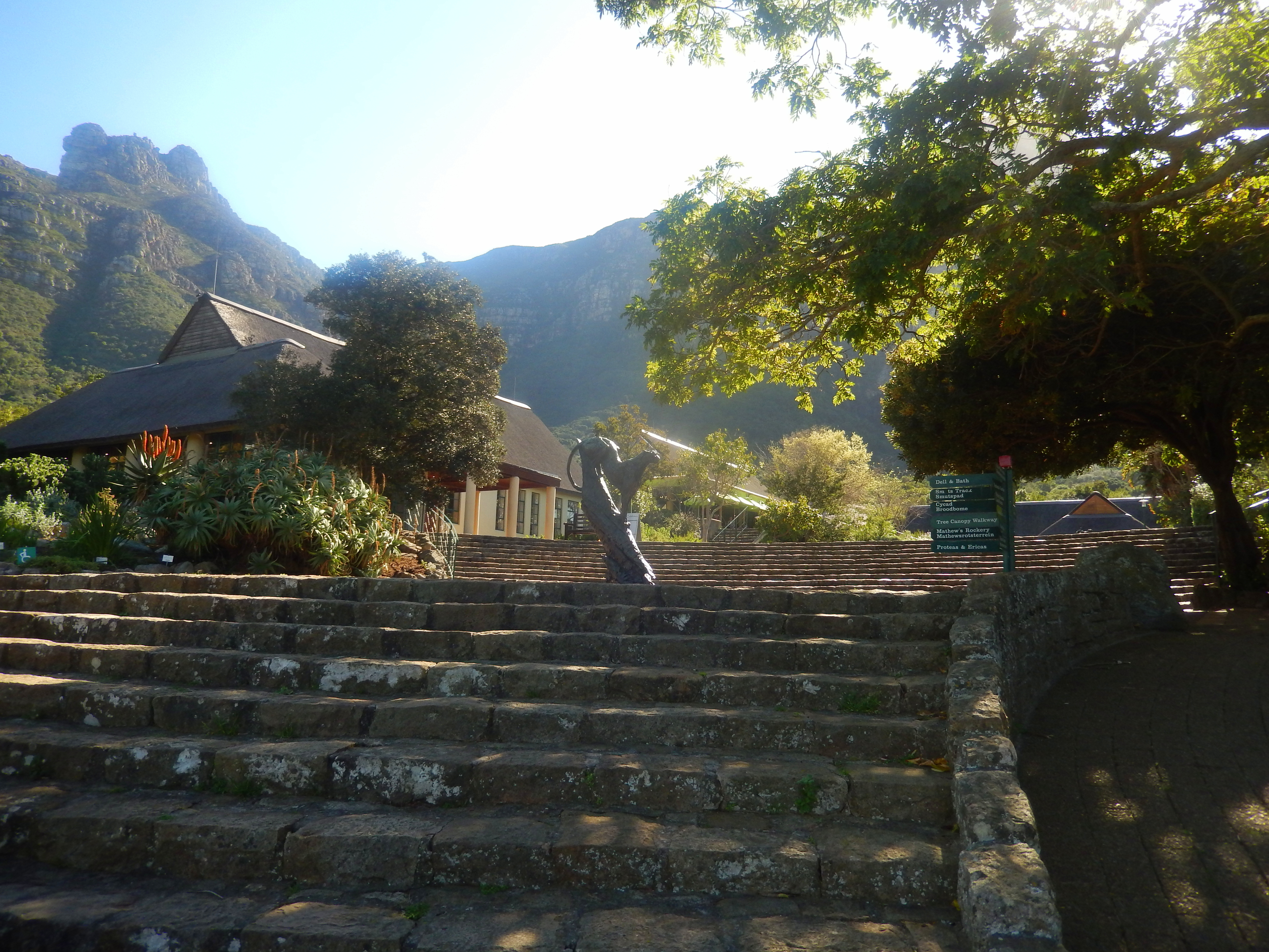 Kirstenbosch National Botanical Garden